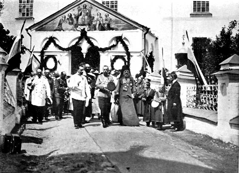 Presentation of the deputation of the local Union of the Russian People to the Emperor Nicholas II.